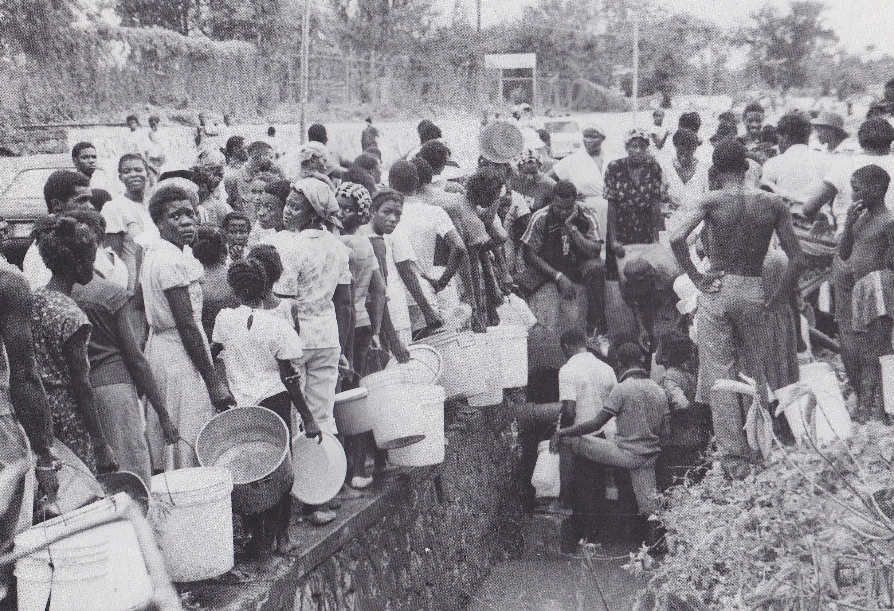 People lined up with buckets for water after Hurricane Gilbert struck Jamaica on sept 12 1988